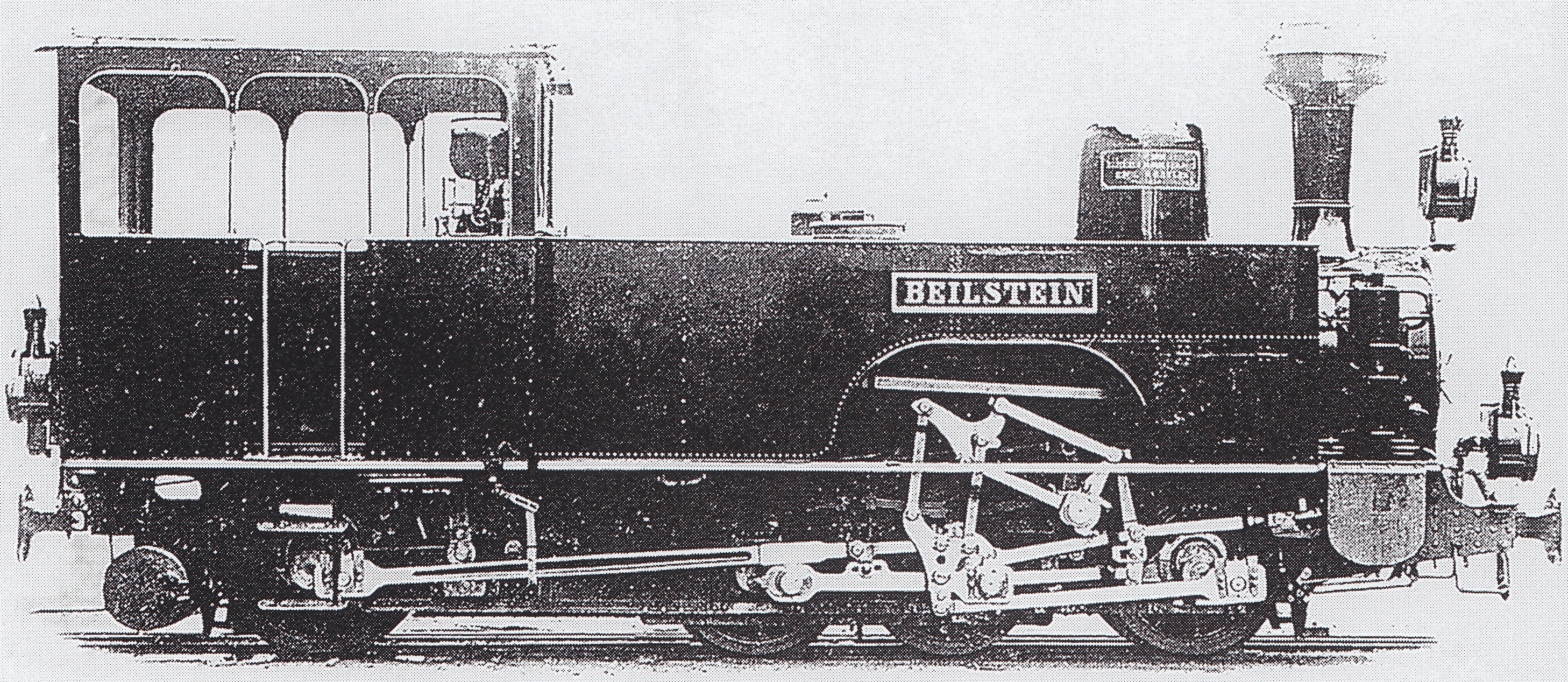 Steam locomotive Württemberg Tss4.